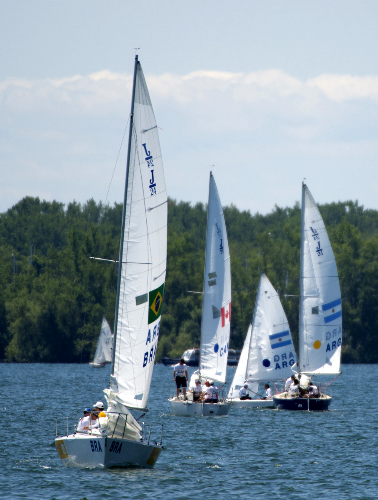 TORONTO, ON, JULY 16, 2015. The PanAm Games continue, with action from Sugar Beach Sailing at the 2015 Pan American Games